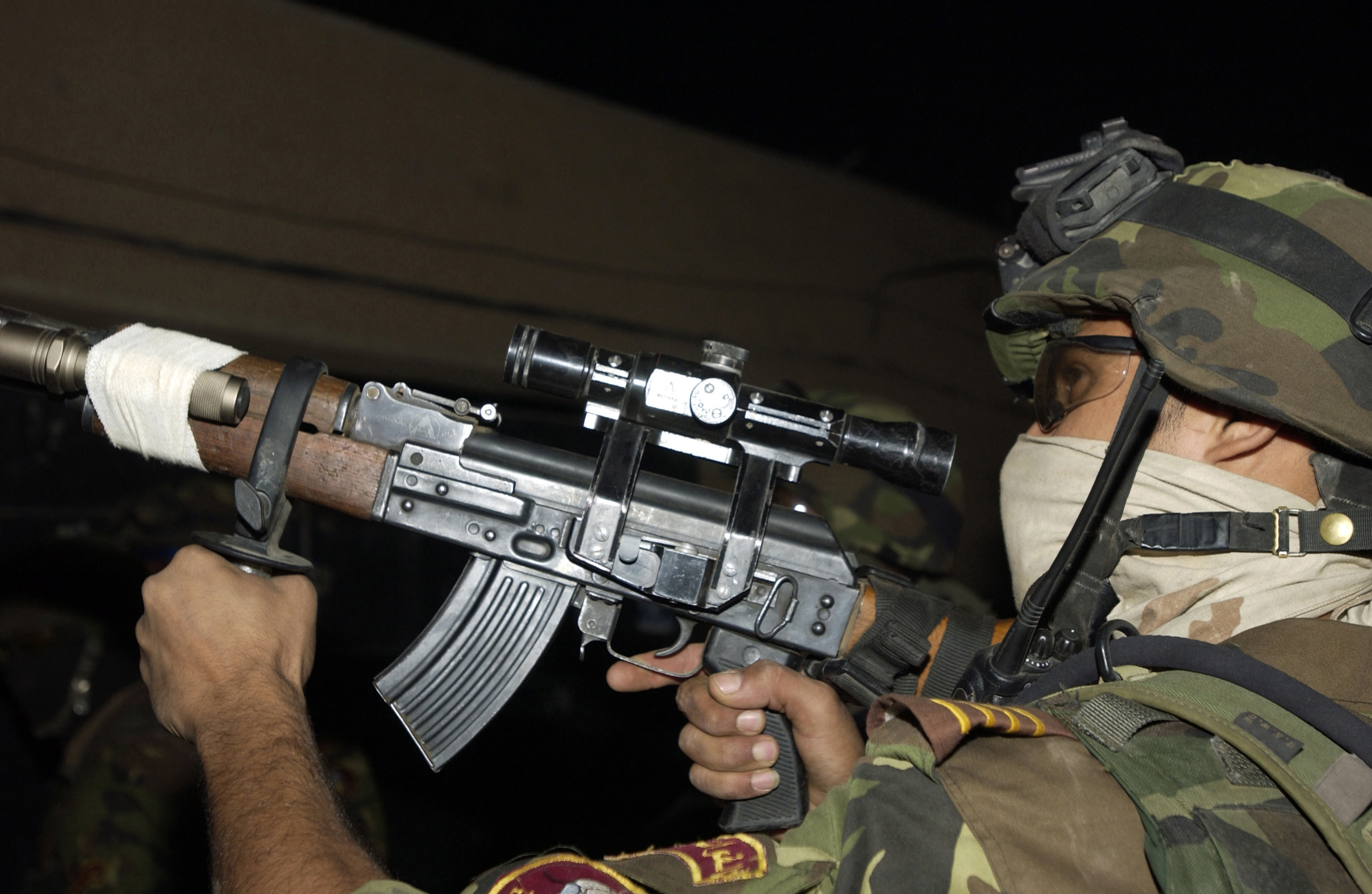 An Iraqi Army soldier assigned to 3rd Battalion, 2nd Brigade, 6th Division, readies his 7.62 mm Tabuk assault rifle while conducting a raid in Sadr City, Baghdad, Iraq, in September 2005, during the Iraq War.